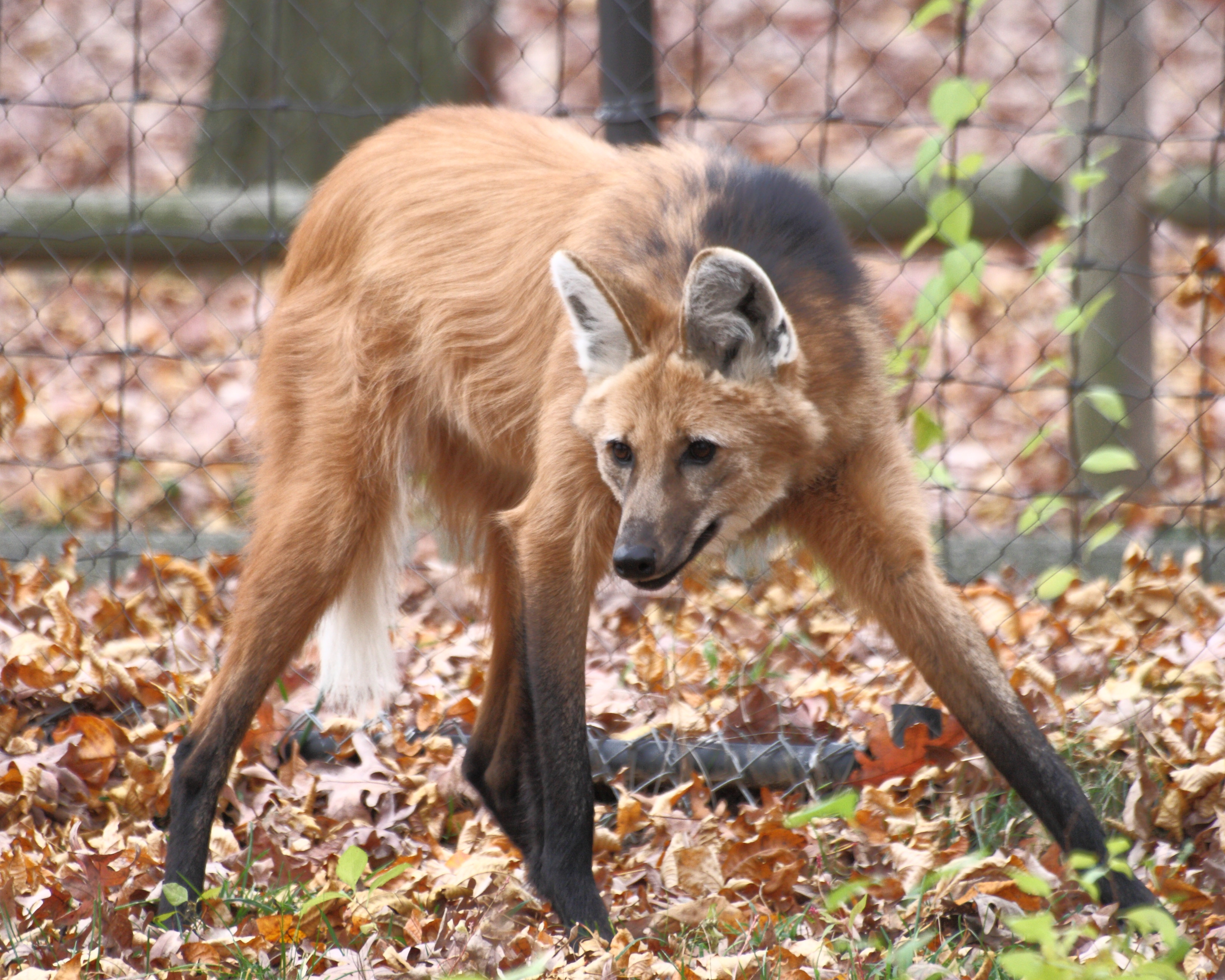 A Maned Wolf (Chrysocyon brachyurus) at Beardsley Zoo